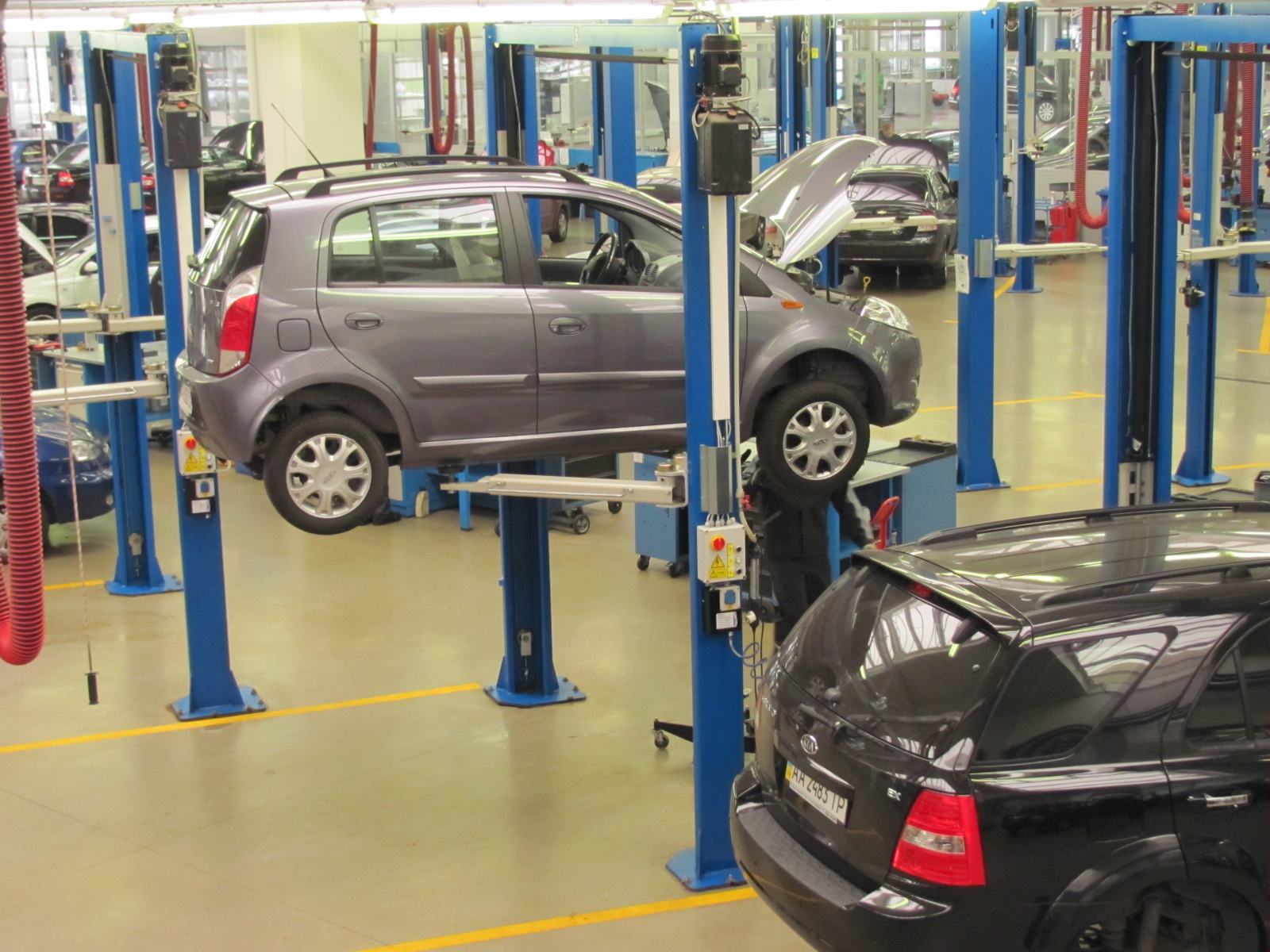 Chery A1 (in the middle) and Kia Sorrento (at right) - at a service shop in Ukraine (note that cars have number plates - it's not production line).